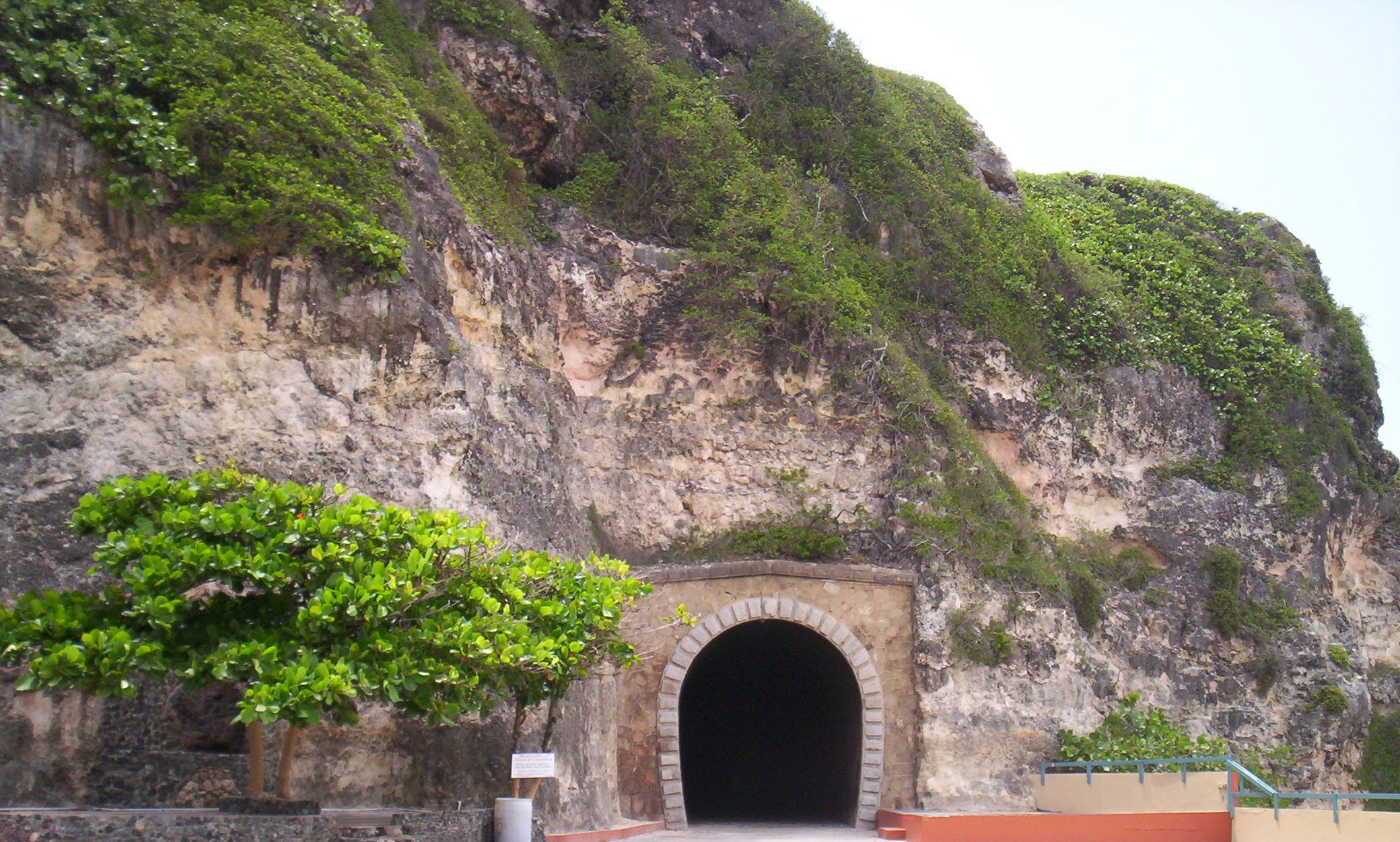 Guajataca Historic Train Tunnel located near Quebradillas, Puerto Rico